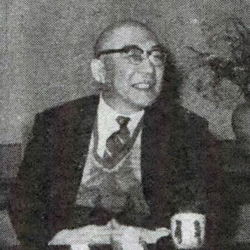 Kon Toukou